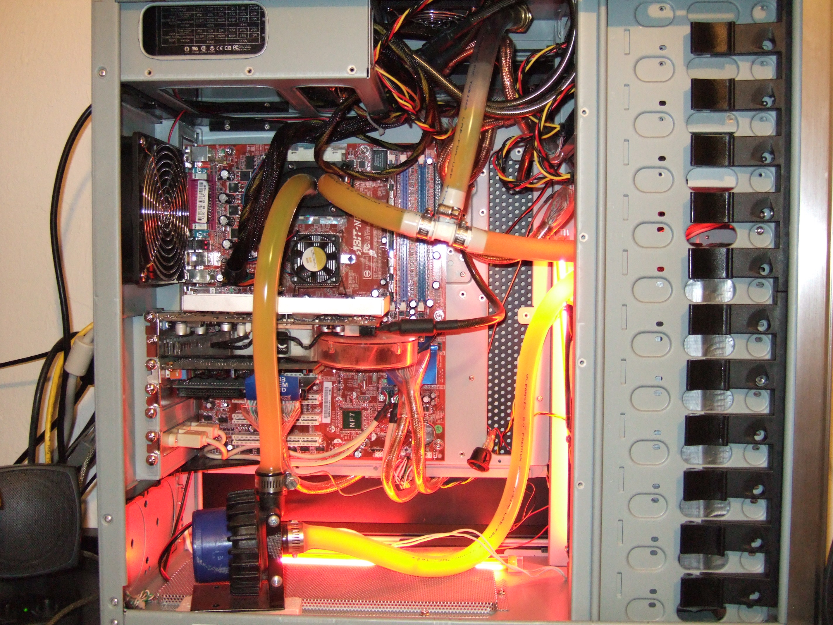 A watercooled PC